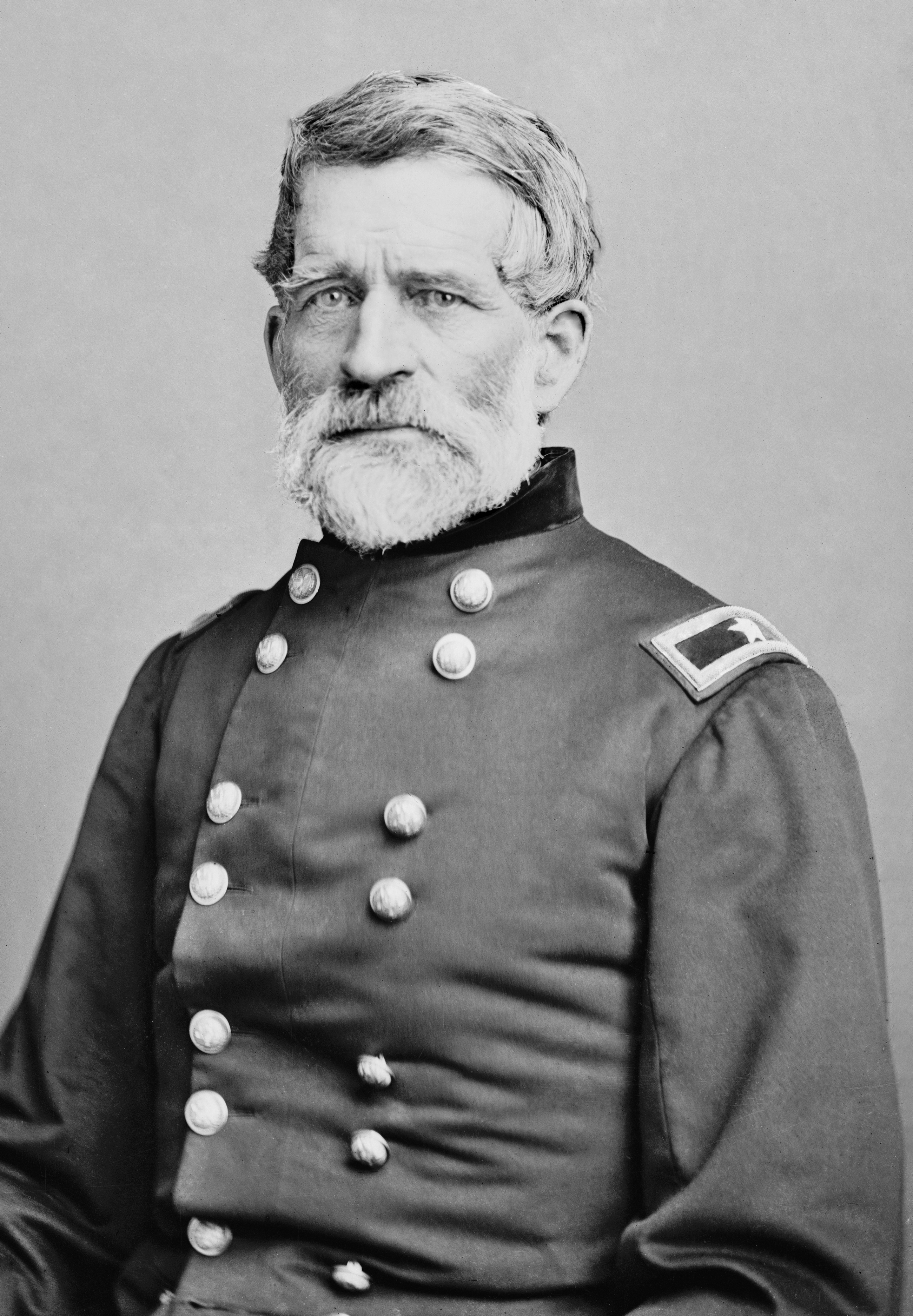 Lysander Cutler (February 16, 1807 – July 30, 1866) was a businessman, educator, politician, and a Union Army general during the American Civil War.